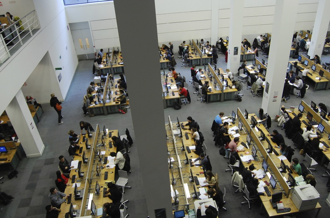 LSE Library, The British Library of Political and Economic Science